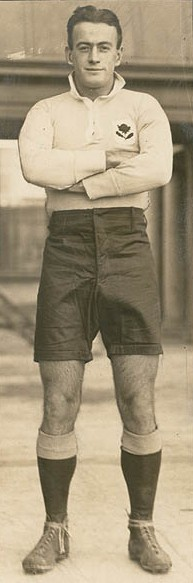 Portrait of rugby union player Cyril Towers.